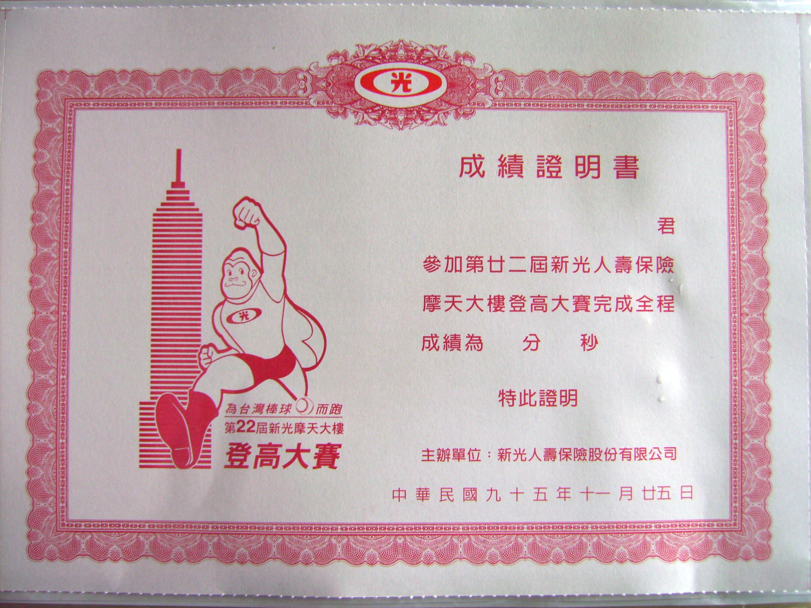 The Certification in the SKL Run Up.